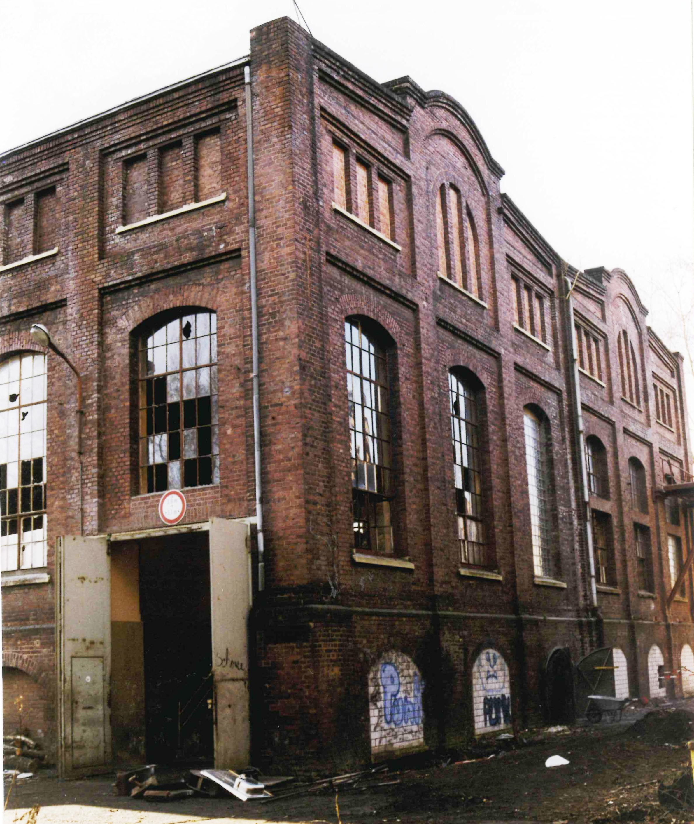 One Building of Triple Z before redevelopment (1998)